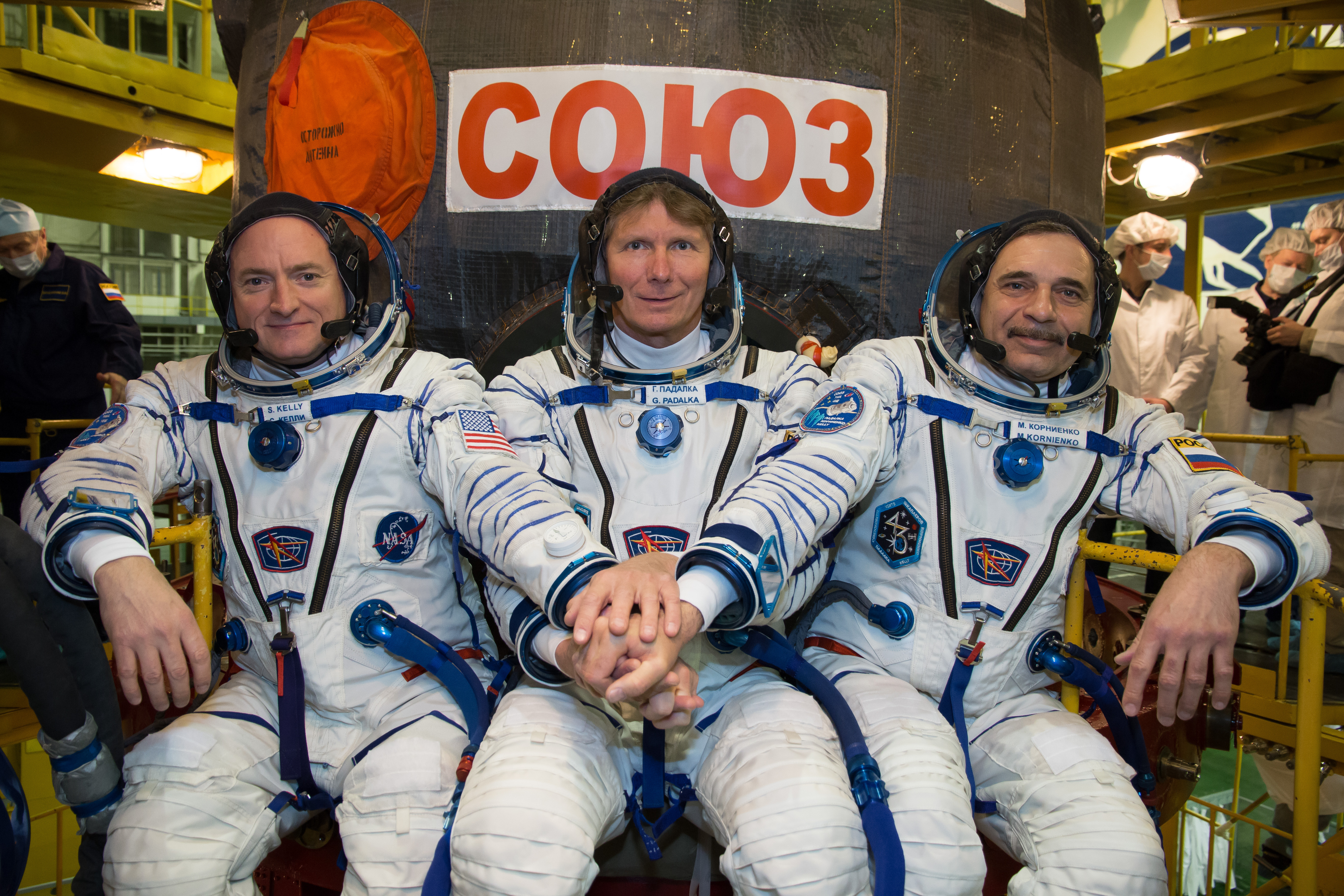 Expedition 43 NASA Astronaut Scott Kelly, left, and Russian Cosmonauts Gennady Padalka, center, and Mikhail Kornienko of the Russian Federal Space Agency (Roscosmos) take a moment during their Soyuz TMA-16M spacecraft fit check to pose for a photograph, Sunday, March 15, 2015 at the Baikonur Cosmodrome in Kazakhstan. The trio are preparing for launch to the International Space Station in their Soyuz TMA-16M spacecraft from the Baikonur Cosmodrome in Kazakhstan March 28, Kazakh time. As the one-year crew, Kelly and Kornienko will return to Earth on Soyuz TMA-18M in March 2016.